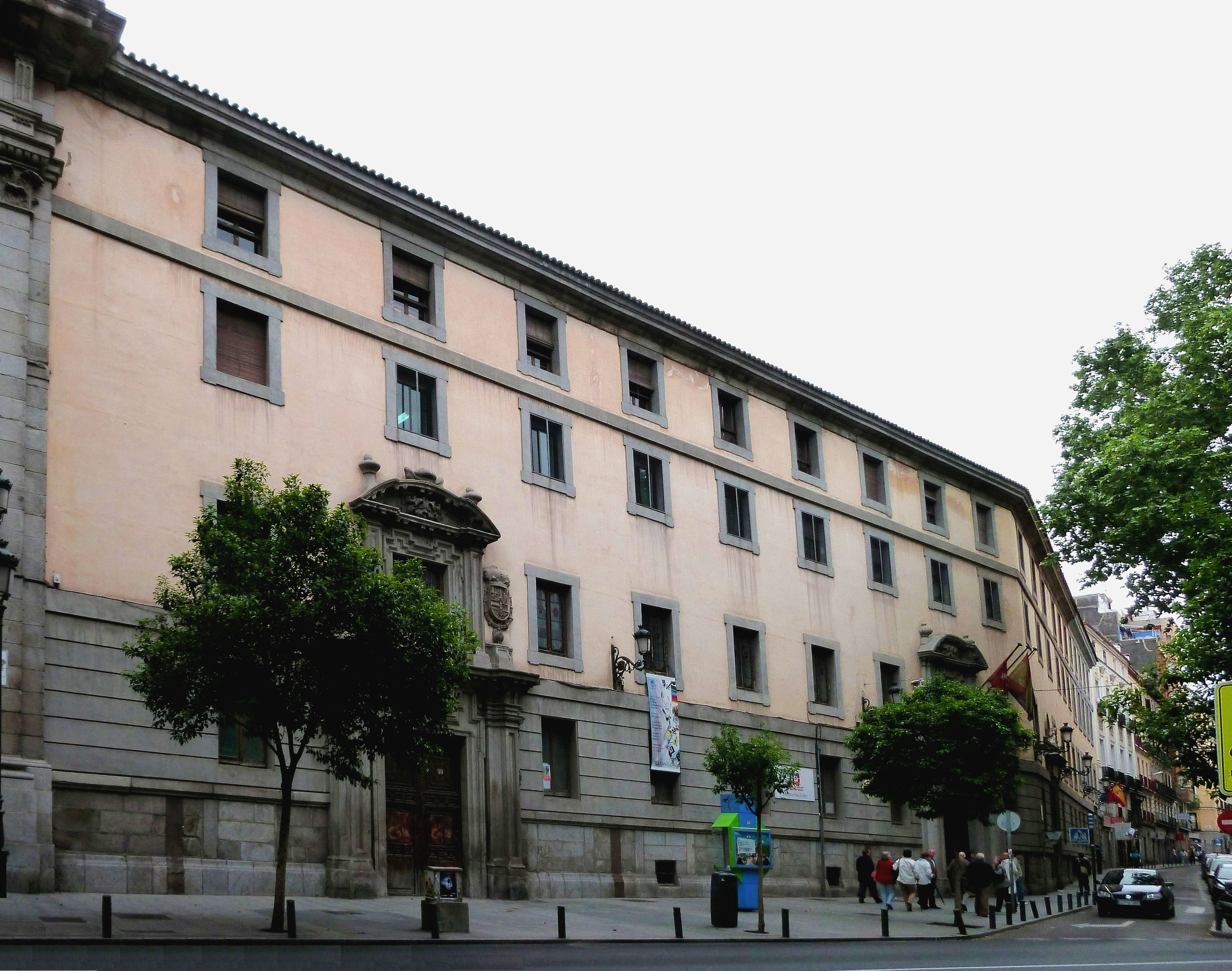 Colegio Imperial in Madrid (Spain), at 39 Calle de Toledo (street) in Centro district. Building was projected by Melchor de Bueras and built between 1679 and 1681.